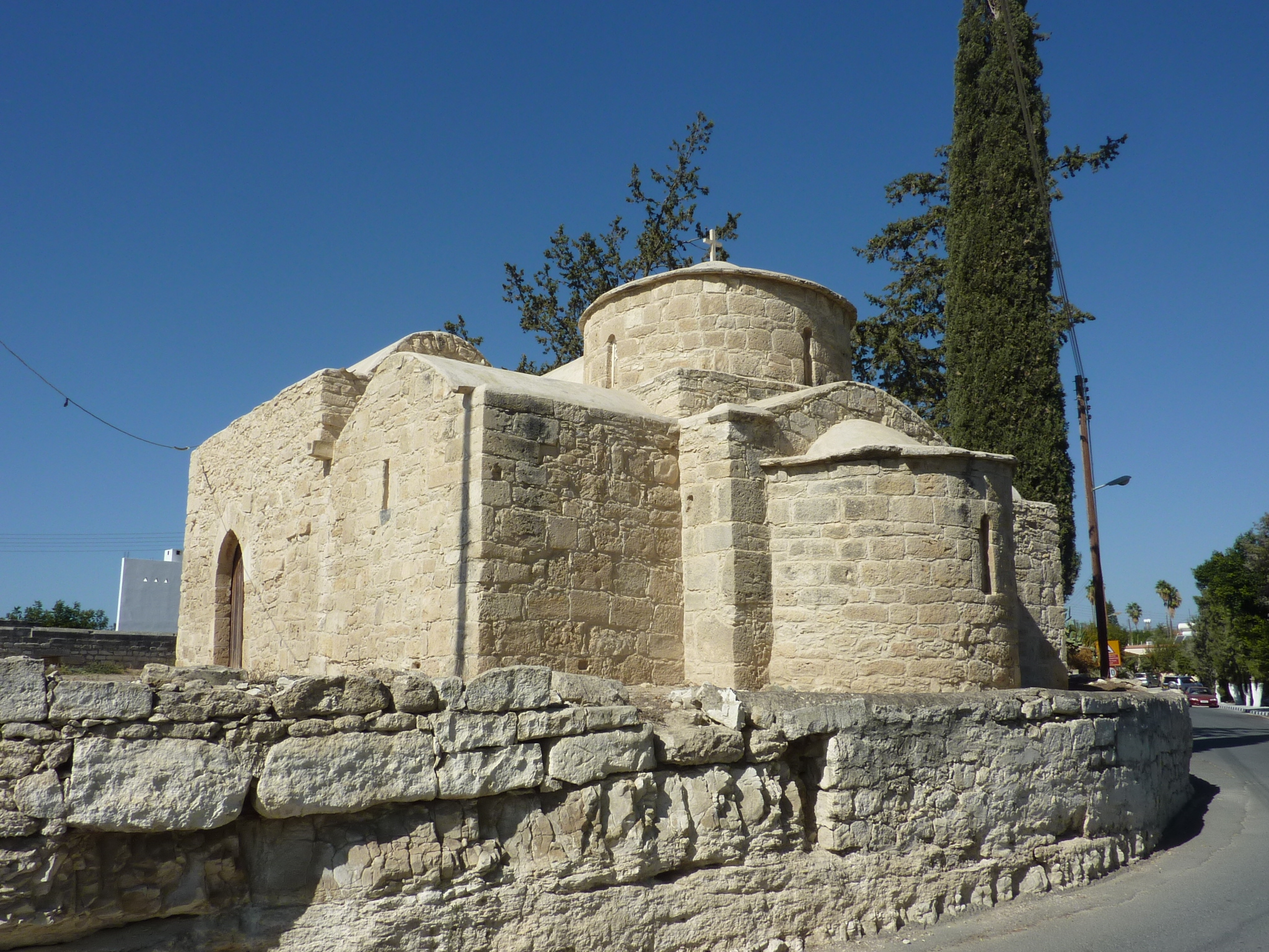 Agios Eustathios, Kolossi, Cyprus